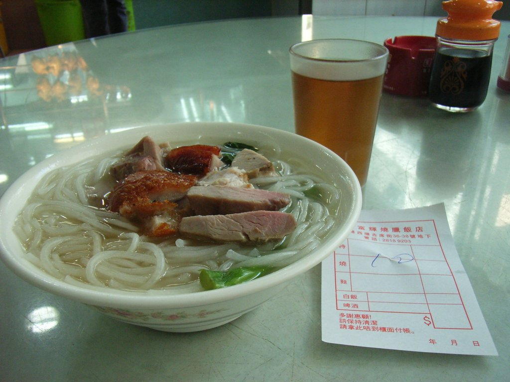 瀨粉 Rice Noodle. by LAI Kwok Leung.